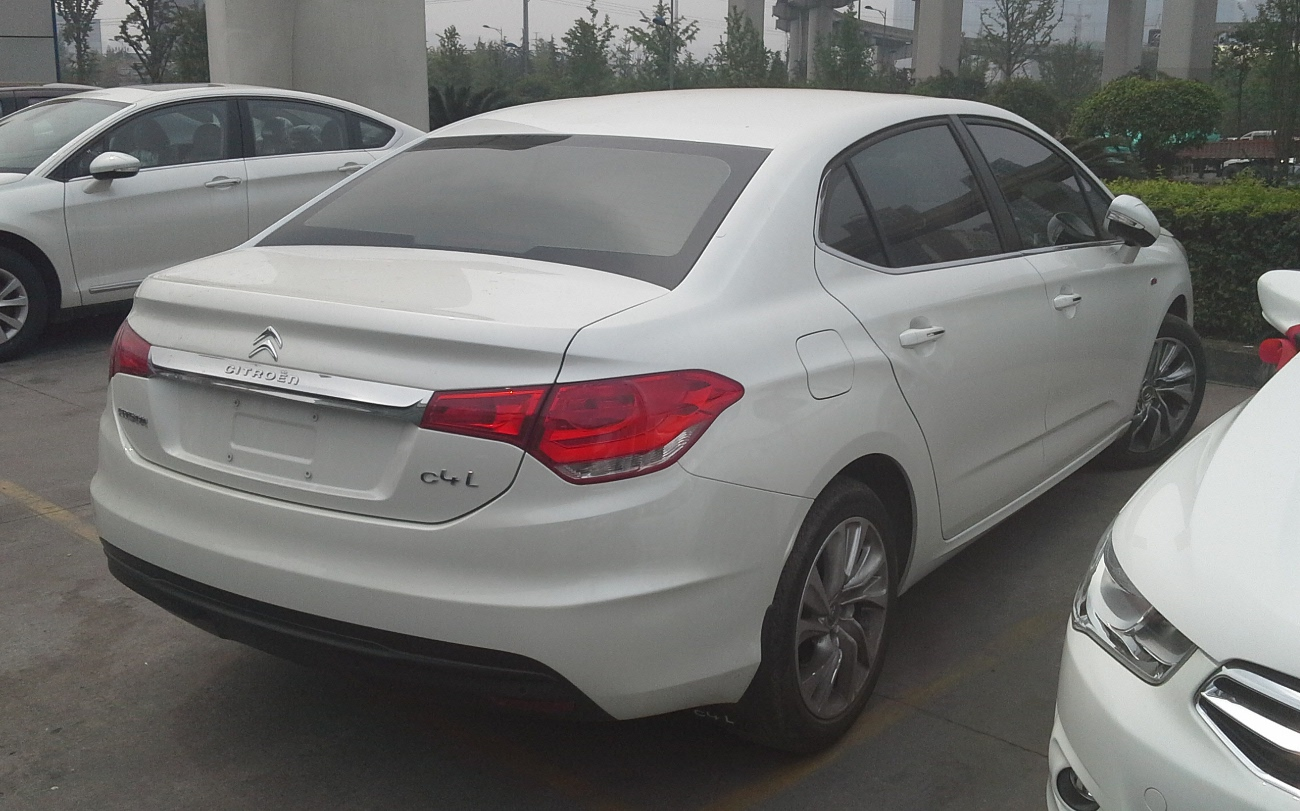 Citroën C4L photographed in Chongqing, China.